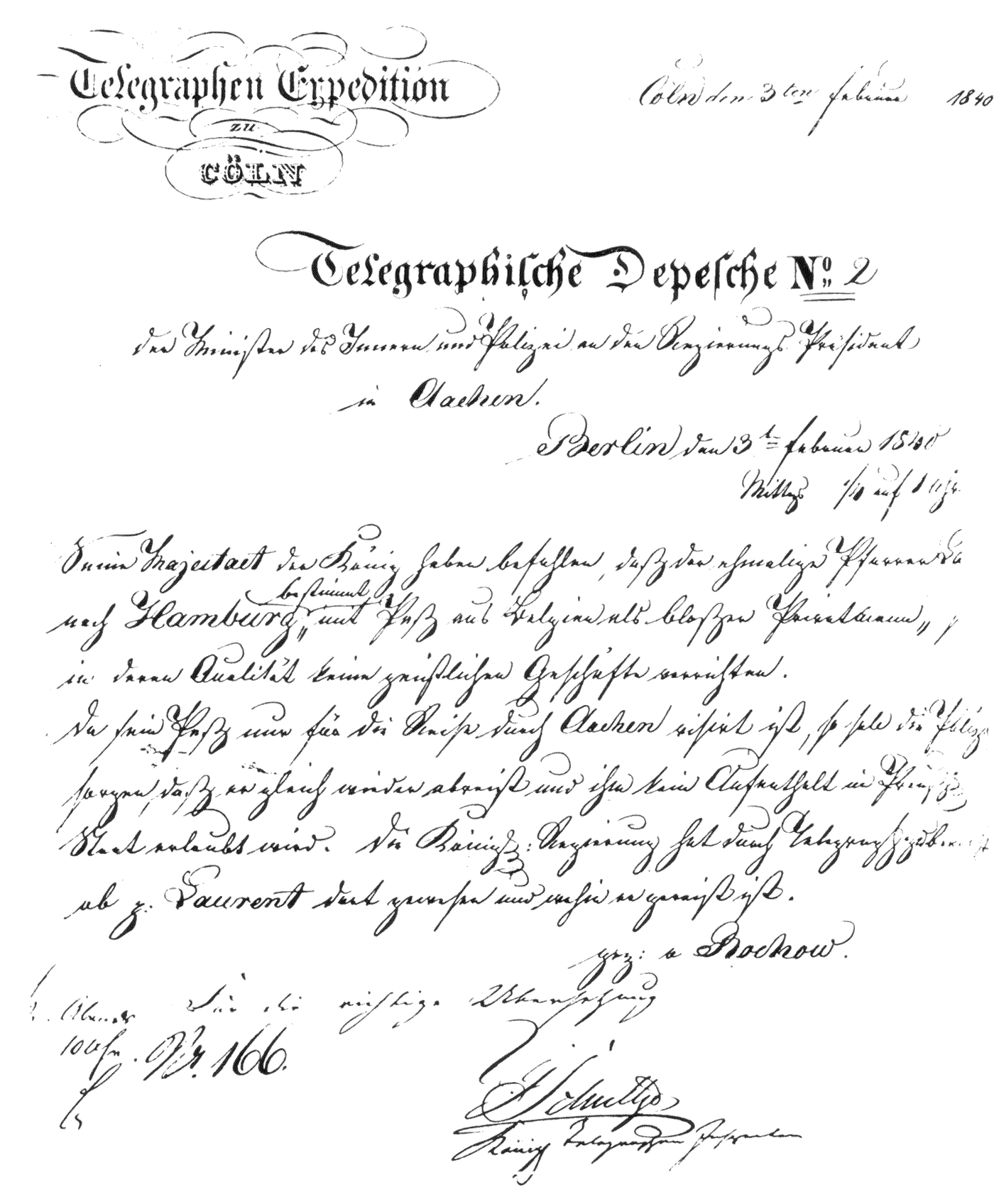 Message from Gustav von Rochow posted over the prussian optical telegraph